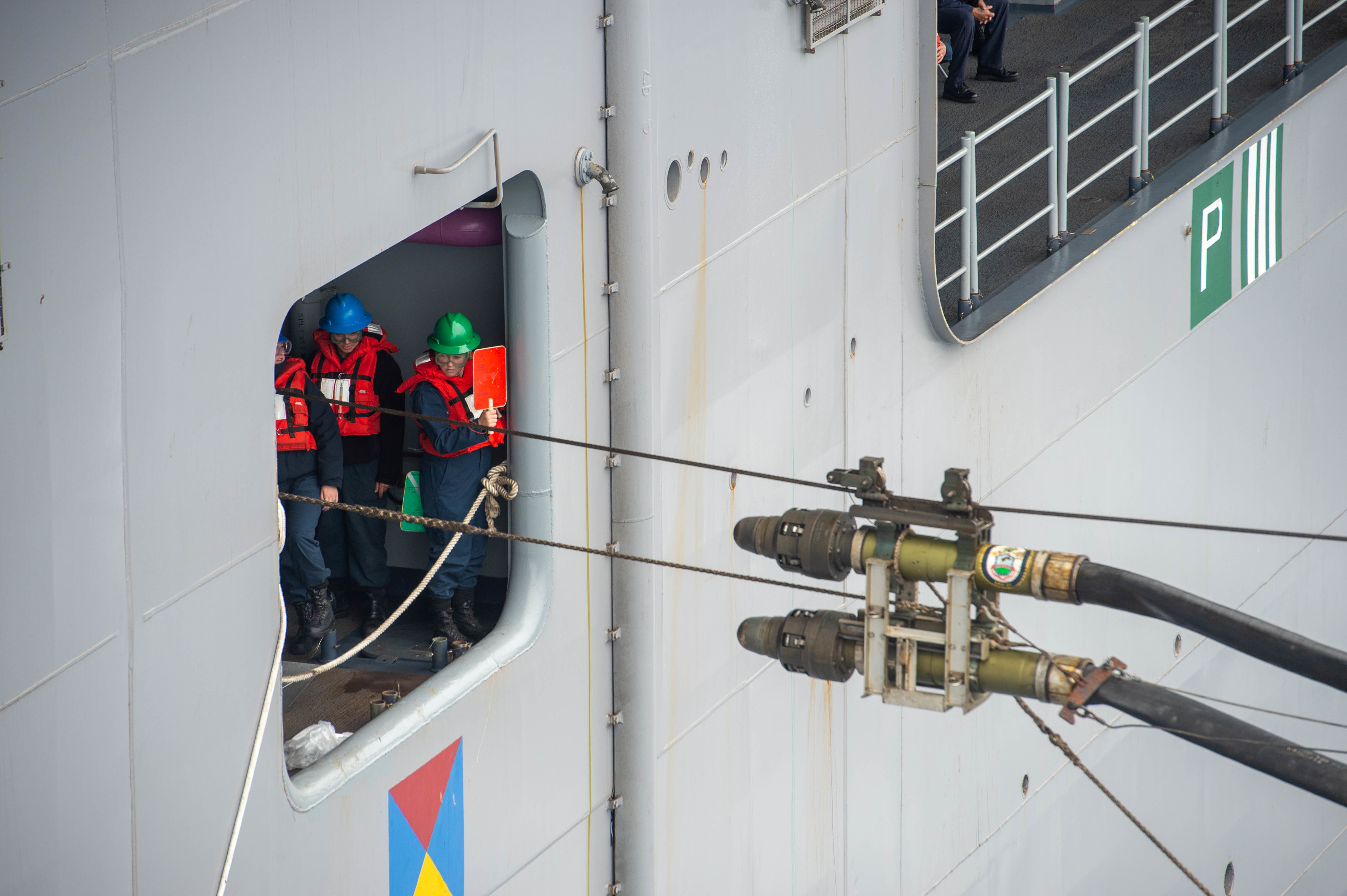 PACIFIC OCEAN (Oct. 9, 2019) Sailors assigned to the amphibious assault ship USS Makin Island (LHD 8) prepare to receive fuel from the fleet replenishment oiler USNS Yukon (T-AO 202) during a replenishment-at-sea. Makin Island is conducting routine operations in the eastern Pacific. (U.S. Navy photo by Mass Communication Specialist 2nd Class Jeremy Laramore/Released)191009-N-TF178-1076